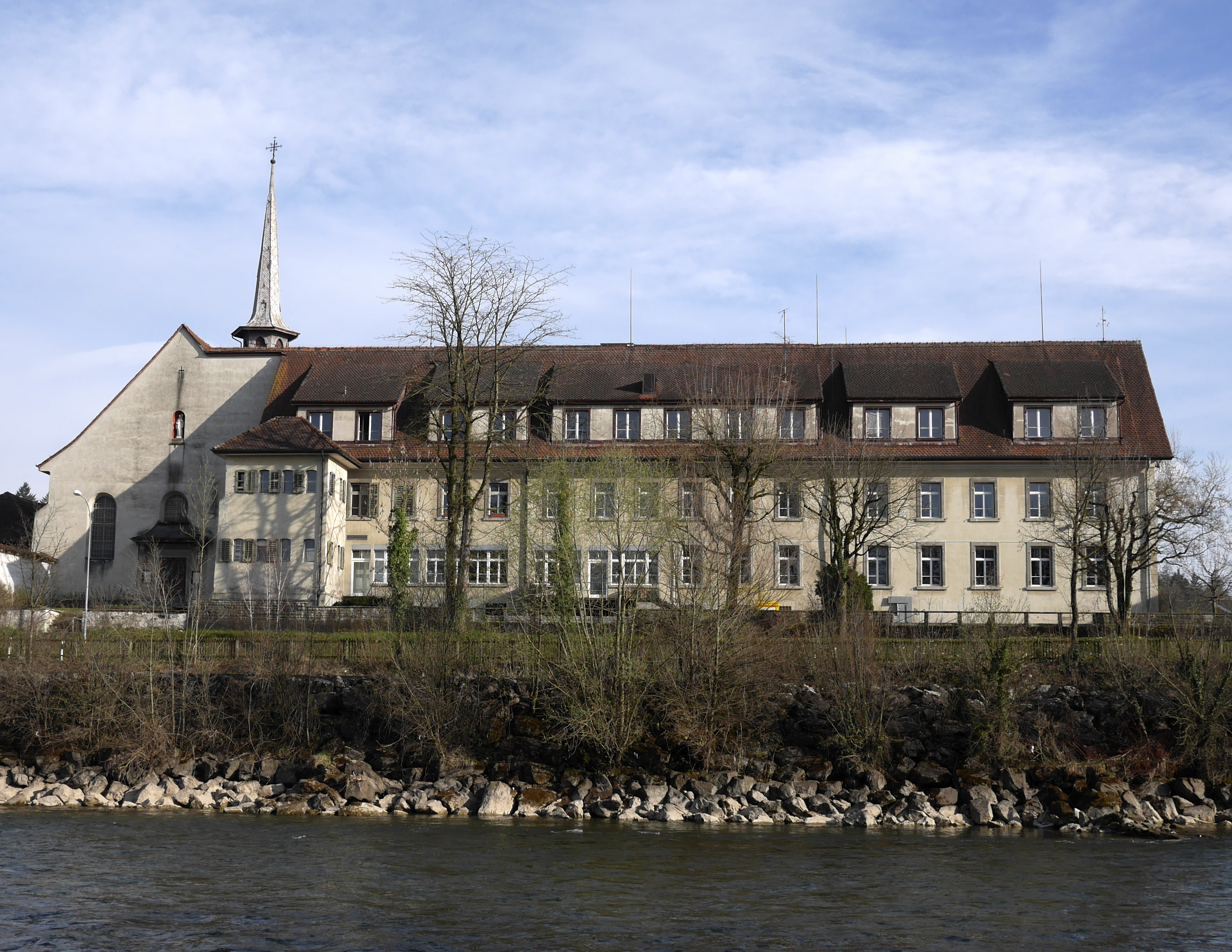 Rathausen, Ebikon, Canton of Lucerne, Switzerland